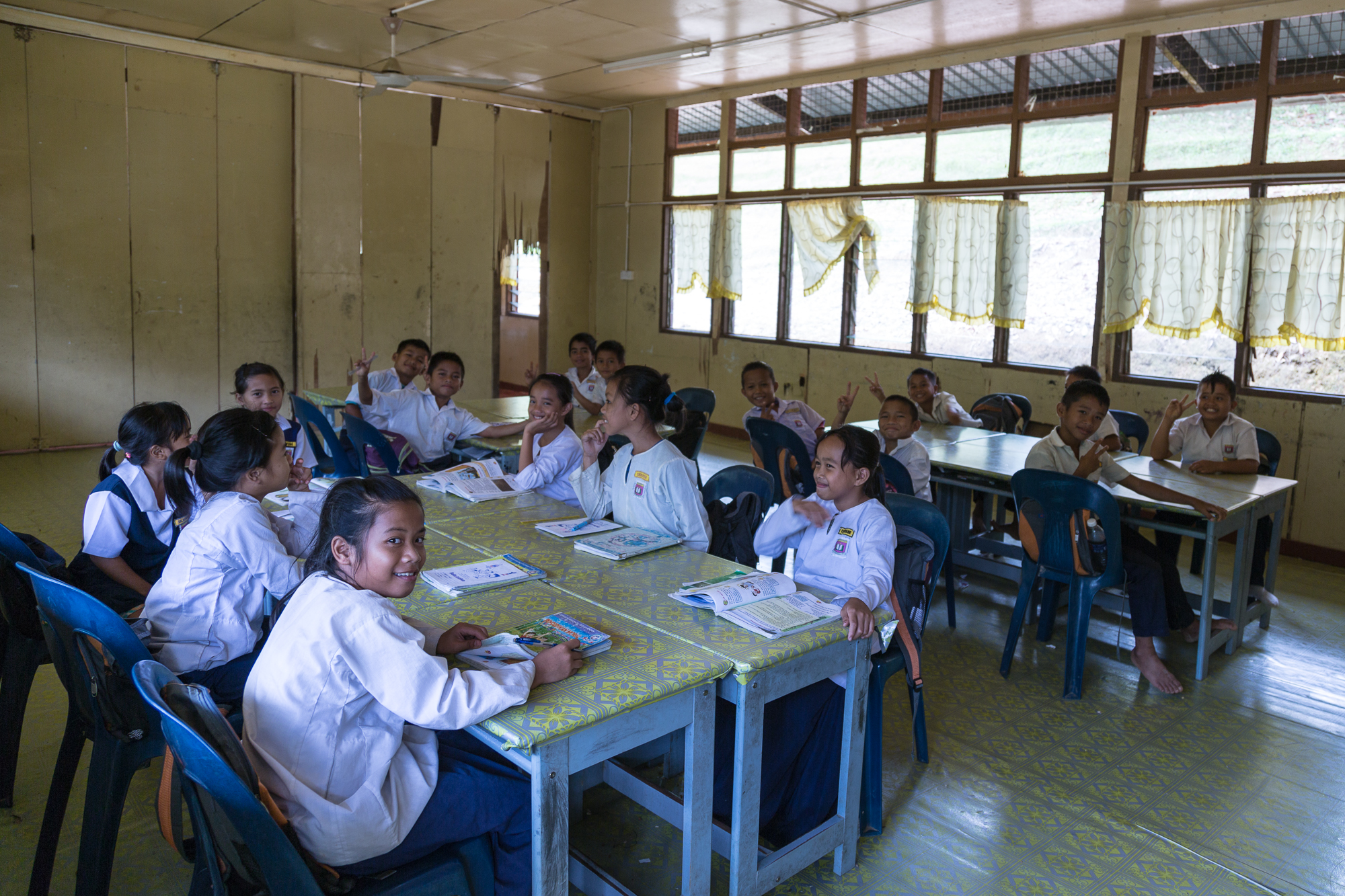 Pensiangan, Sabah, Malaysia: Classroom tahun 5 and students